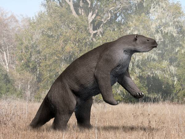 Megatherium americanum